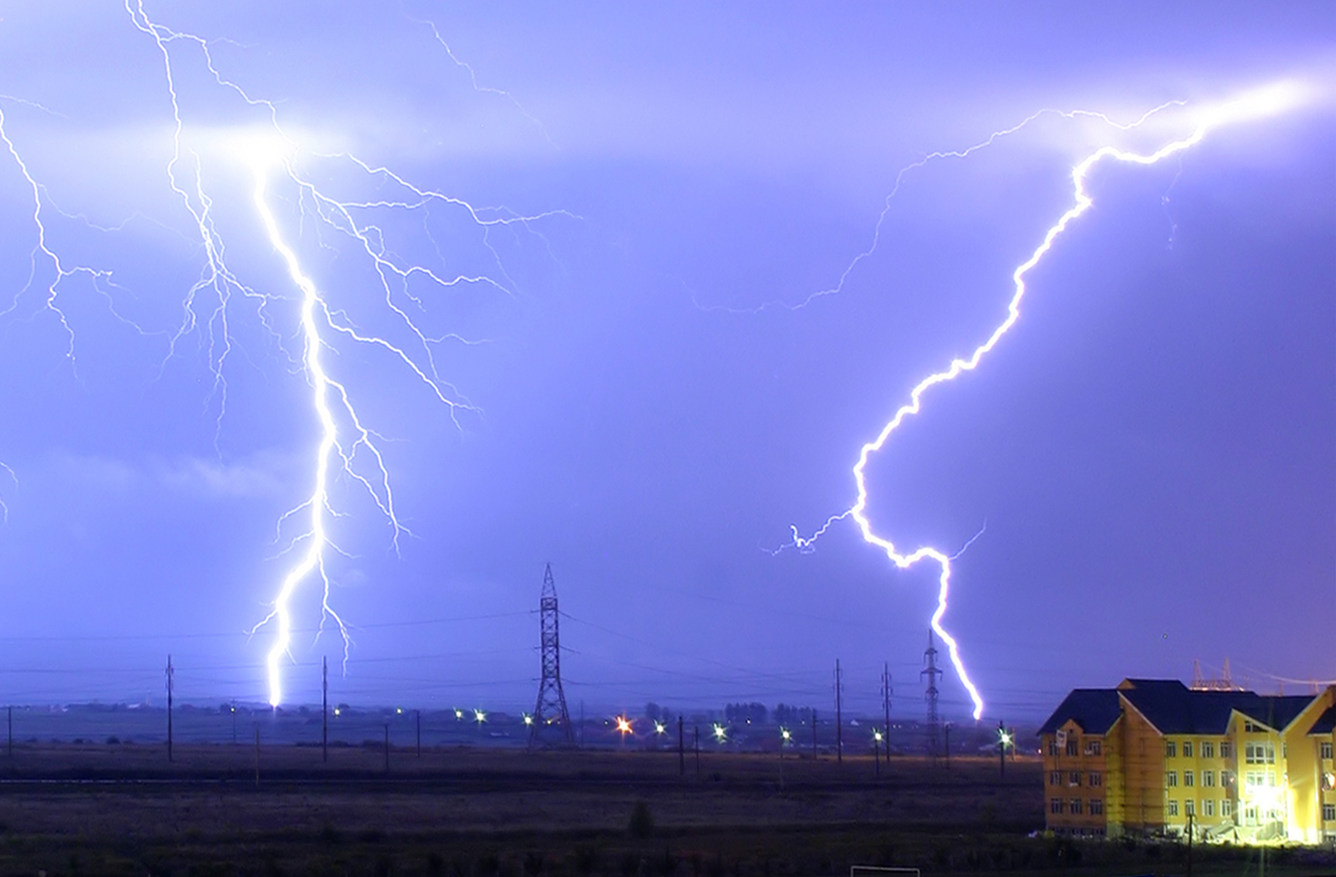 Lightning over the outskirts of Oradea, Romania, during the August 17, 2005 thunderstorm which went on to cause major flash floods over southern Romania.